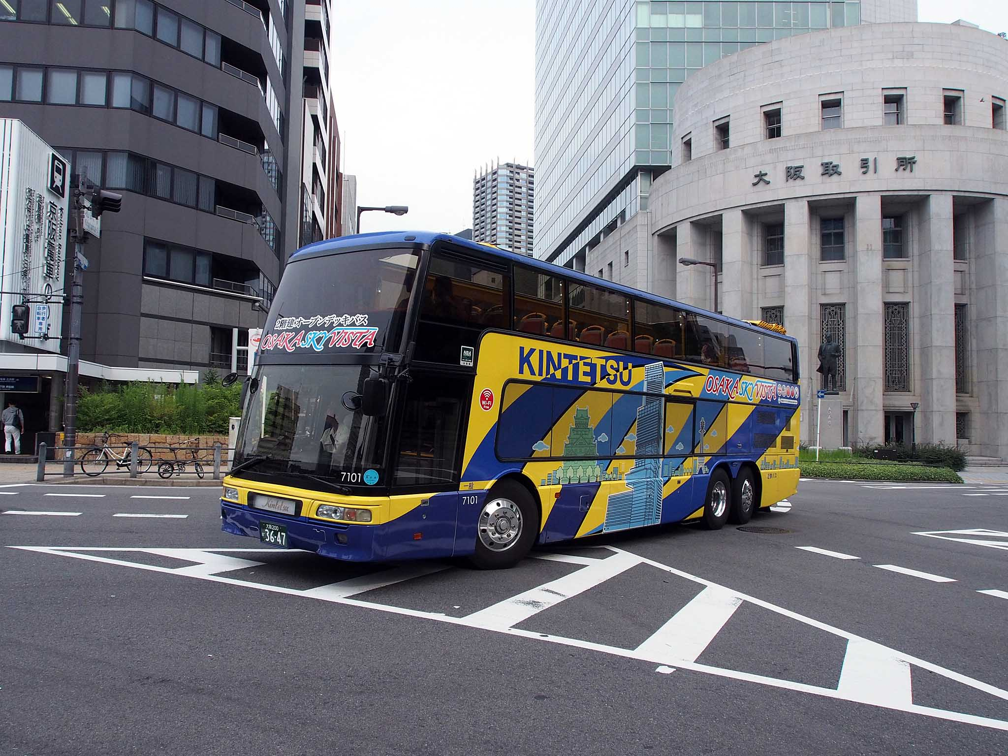 "Osaka Sky Vista", city tour in Osaka with open top bus since July 2014, operated by Kintetsu Bus. Model: Mitsubishi Fuso Aero King MU612TX License plate: OSO200 KA3647 ex.OSO200 KA-788 Place: Kitahama, Chuo Ward, Osaka City, Osaka Japan